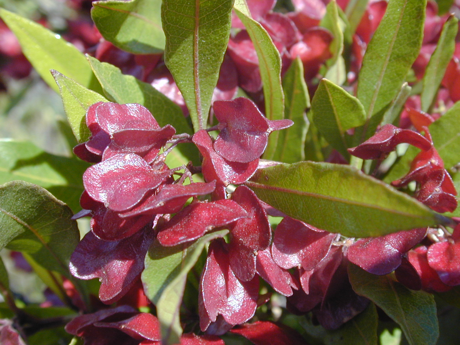 Dodonaea viscosa (red fruits). Location: Maui, Auwahi